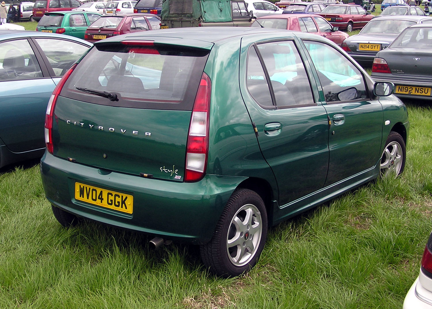 2004 Rover CityRover Style at Coalpit Heath Car Show, near Bristol, England.Taken by Adrian Pingstone in July 2004 and released to the public domain.